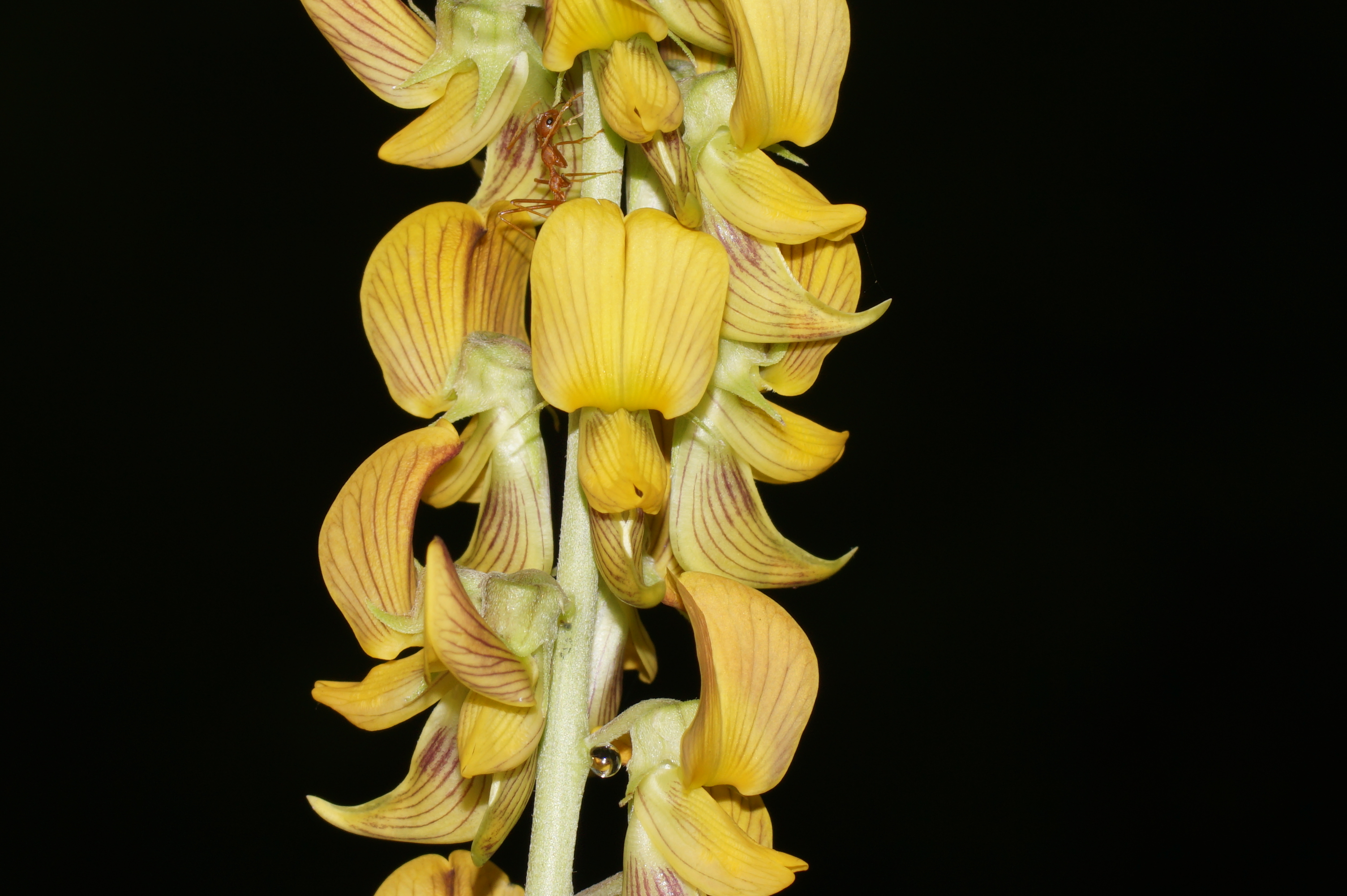 Crotalaria striata